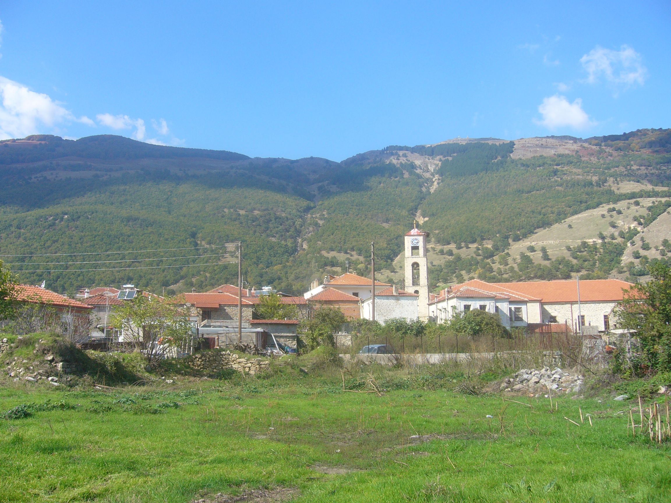 Sklithro village, Florina Prefecture, Region of Westmacedonia, Greece.